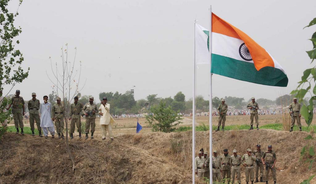 Jammu, June 25. Pakistan Ranger stands near the flags of India and Pakistan during the ancient shrine of 'Dalip Singh' Baba Chamliyal annual fair at zero line international border in RamGarh sector about 45 KM's from Jammu on Thursday. Pix by Vishal Dutta